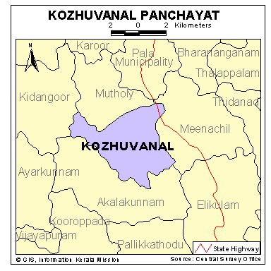 Kozhuvanal